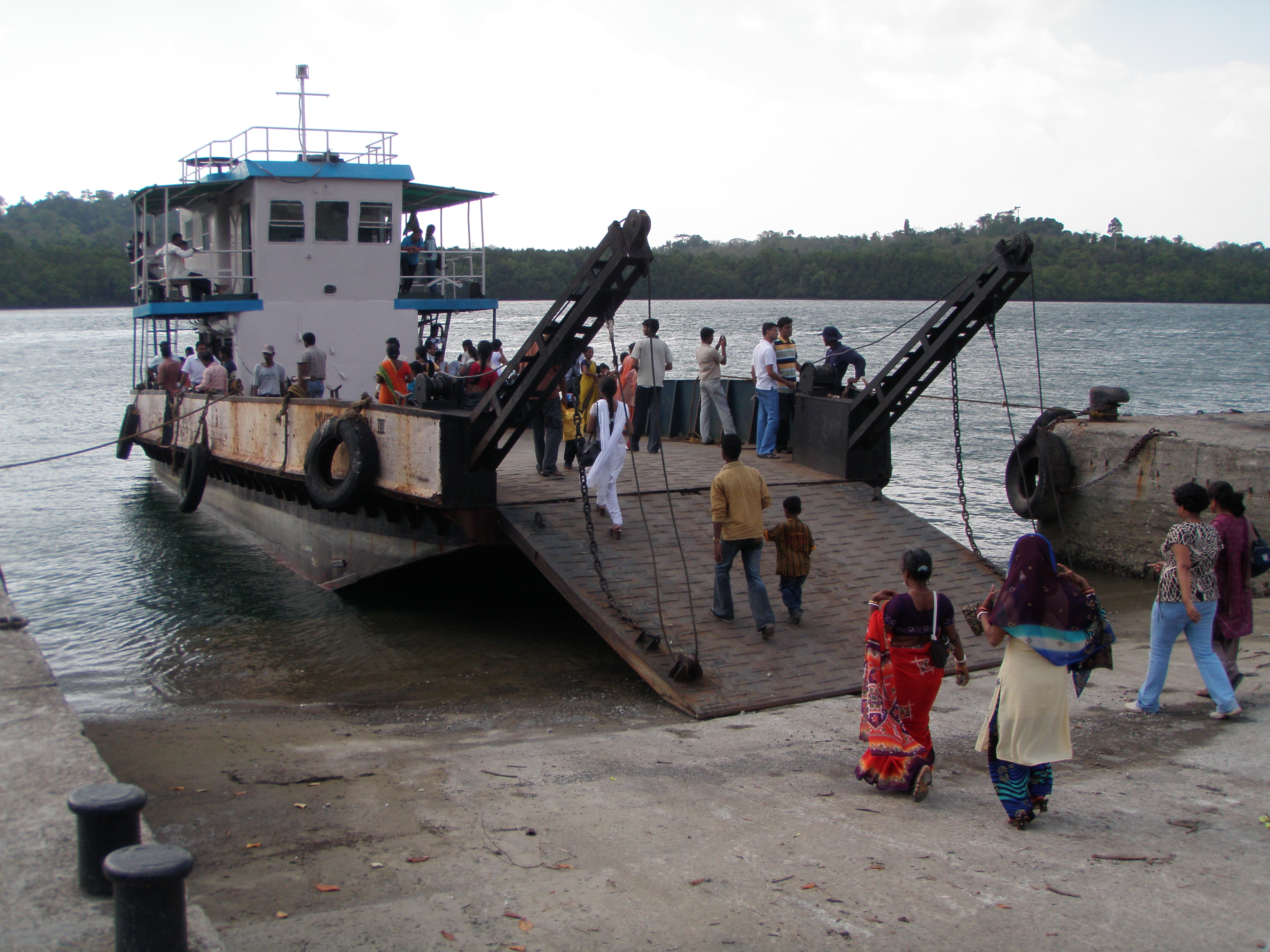 Baratang Island is located at about 100 Km off Port Blair on the Andaman Trunk Road towards Diglipur. The total length of the Island is around 22 Kms and totally separated by Creeks on both sides.